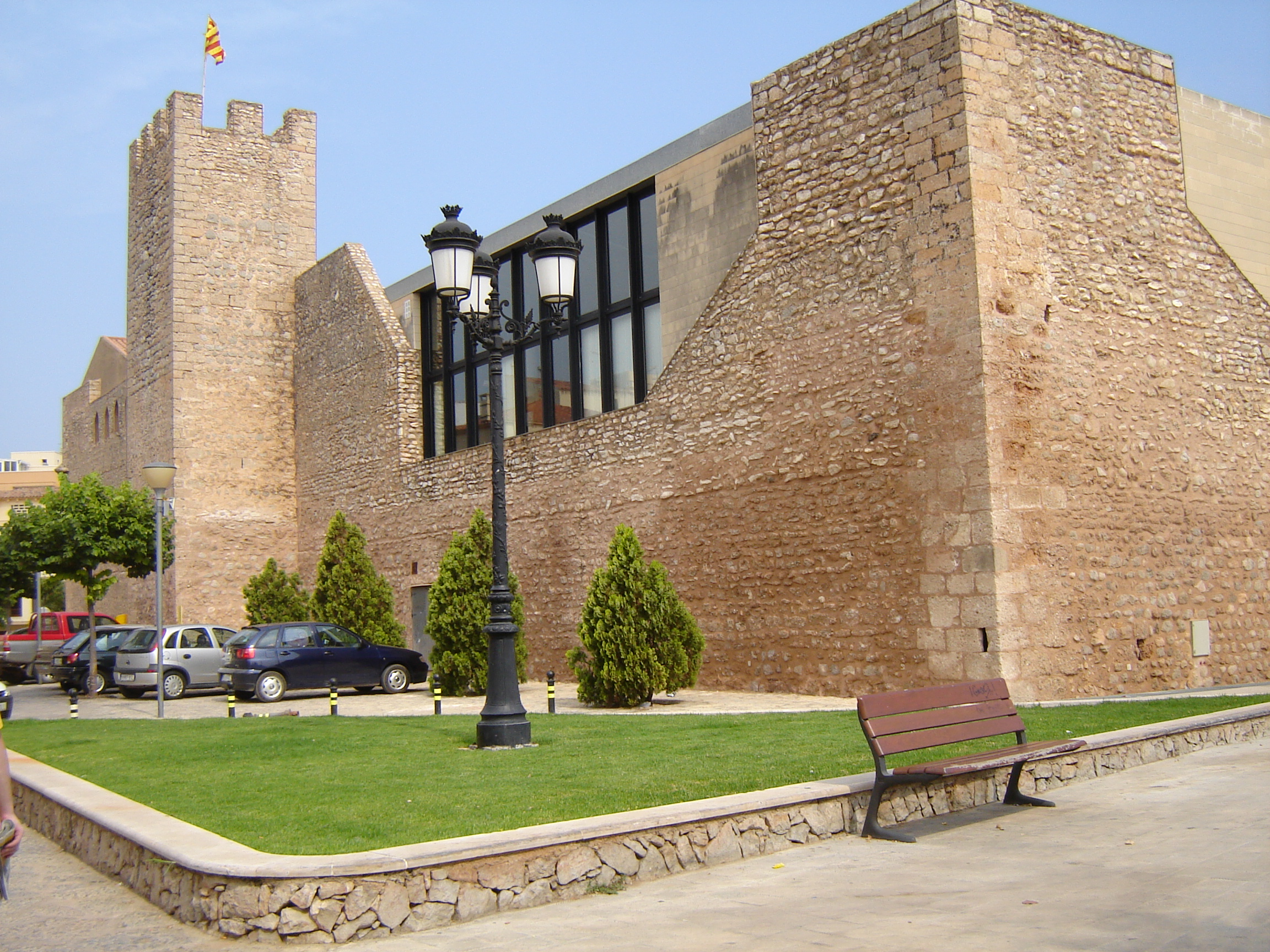 Hospital Medieval de l'Infant Pere in Hospitalet de l'Infant. Hospitalet de l'Infant, municipality of Vandellòs i l'Hospitalet de l'Infant, comarca Baix Camp, province of Tarragona, Catalonia, Spain.